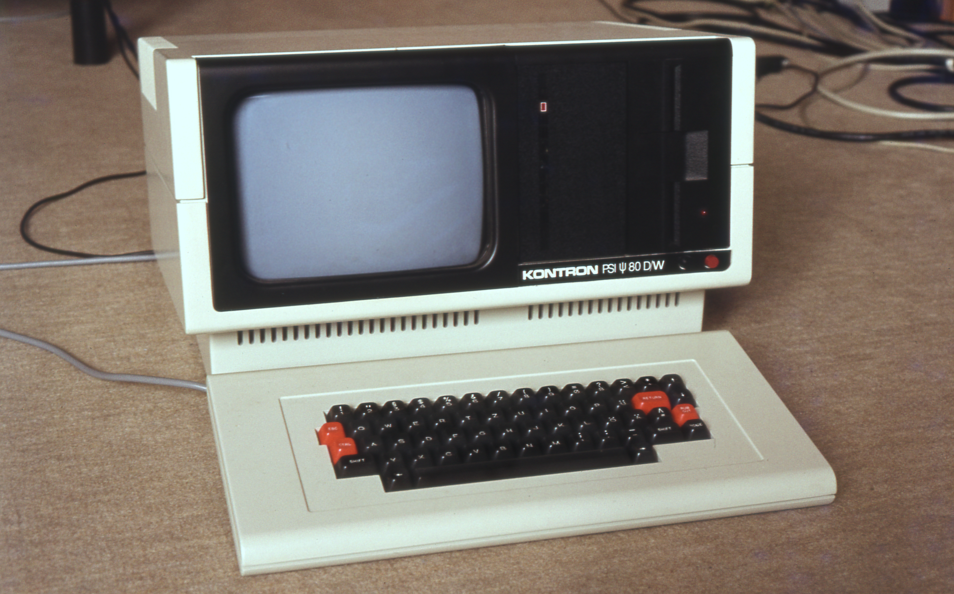 Kontron PSI 80 D/W, computer with Z80-A CPU, 9 inch monitor, monochrome, green, 5 1/2 inch disk drive and harddisk. Picture taken around 1984, digitized from color slide. Manufacturer: Kontron, Eching near Munich, Germany